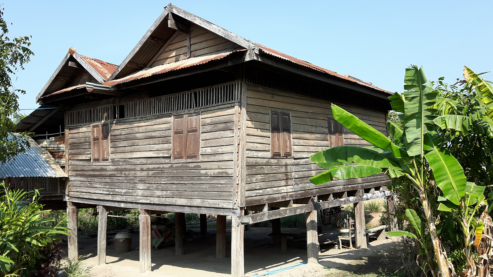 Ban Wang Din